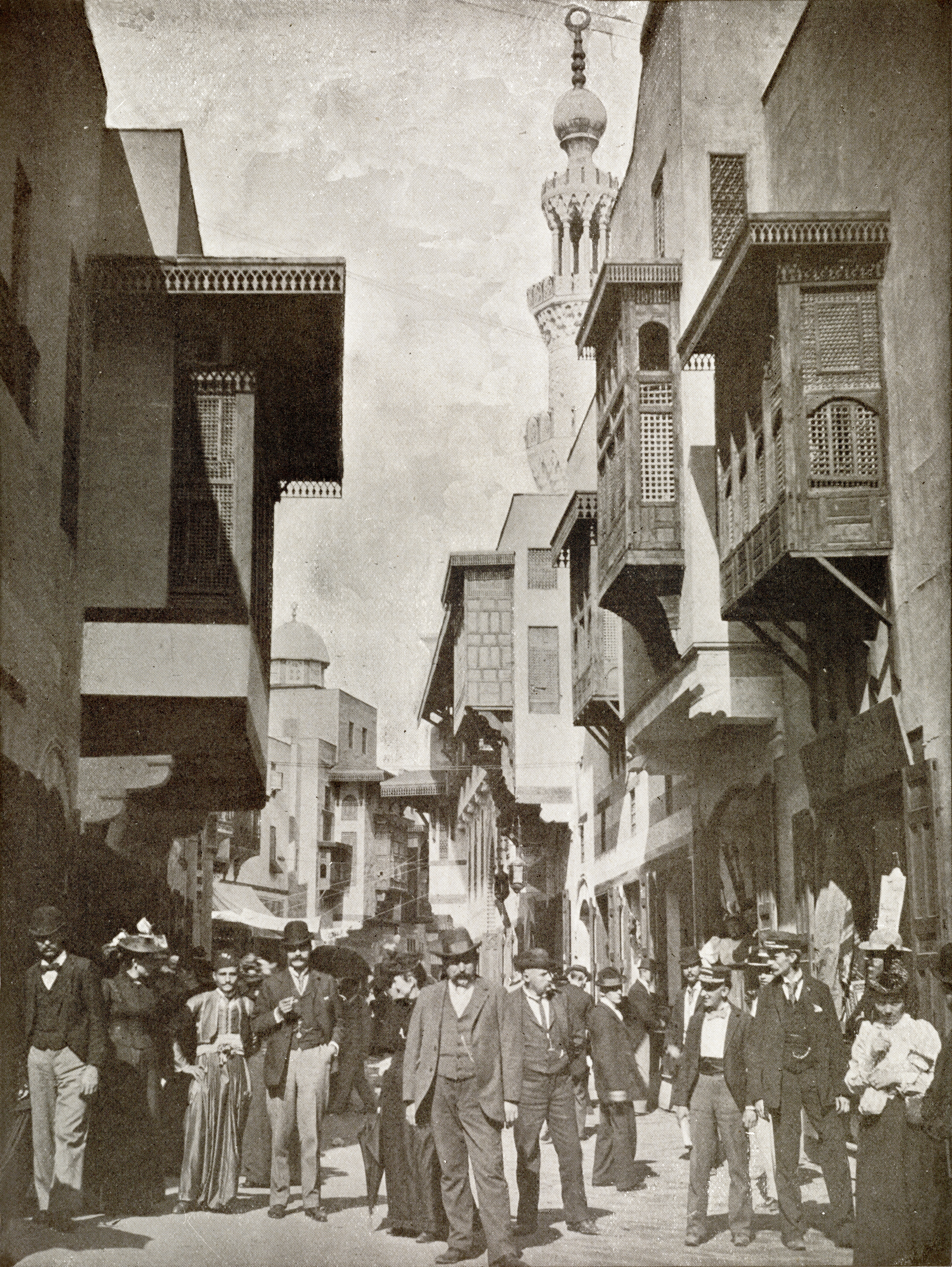 Cairo Street at the World’s Columbian Exposition of 1893 in Chicago.